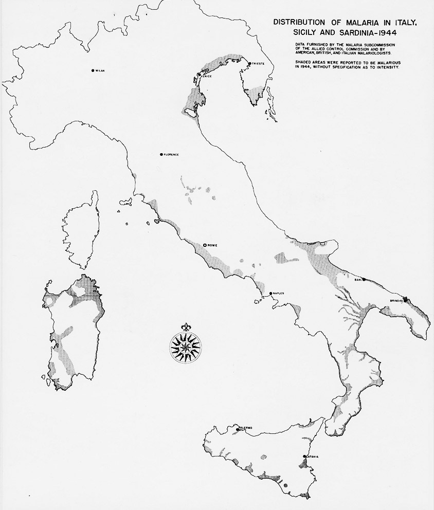 Distribution of Malaria in Italy. Sicily and Sardinia. 1944. [map, World War 2].